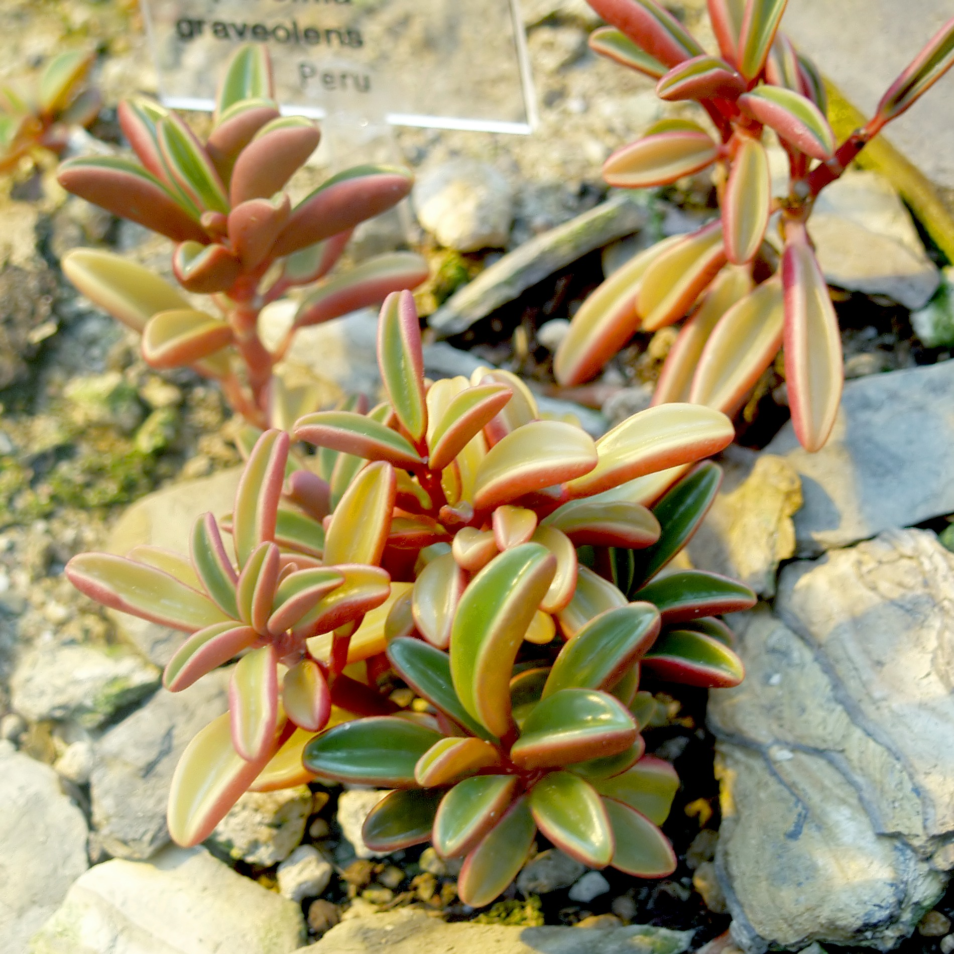 Peperomia graveolens at Botanischer Garten Bonn